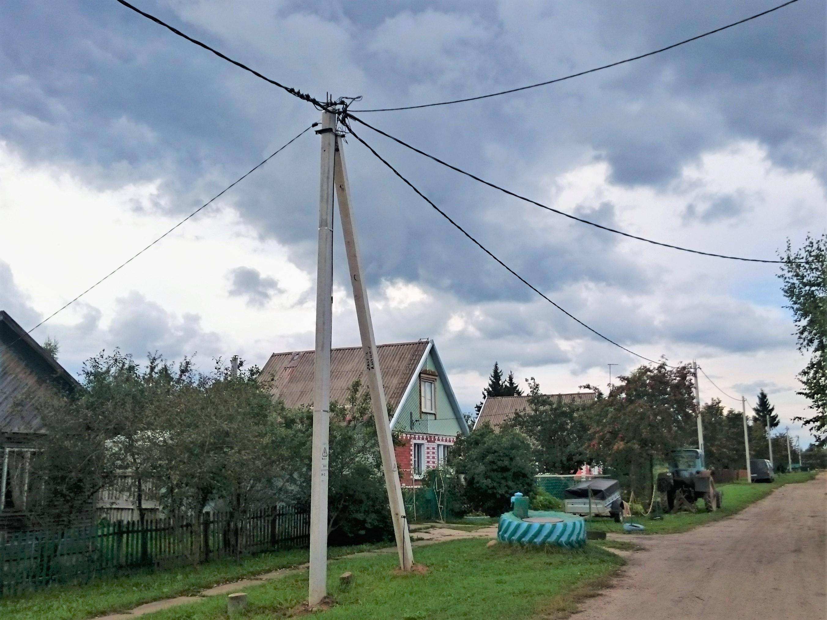 Aerial bundled cable in Yaroslavl Oblast, Russia.